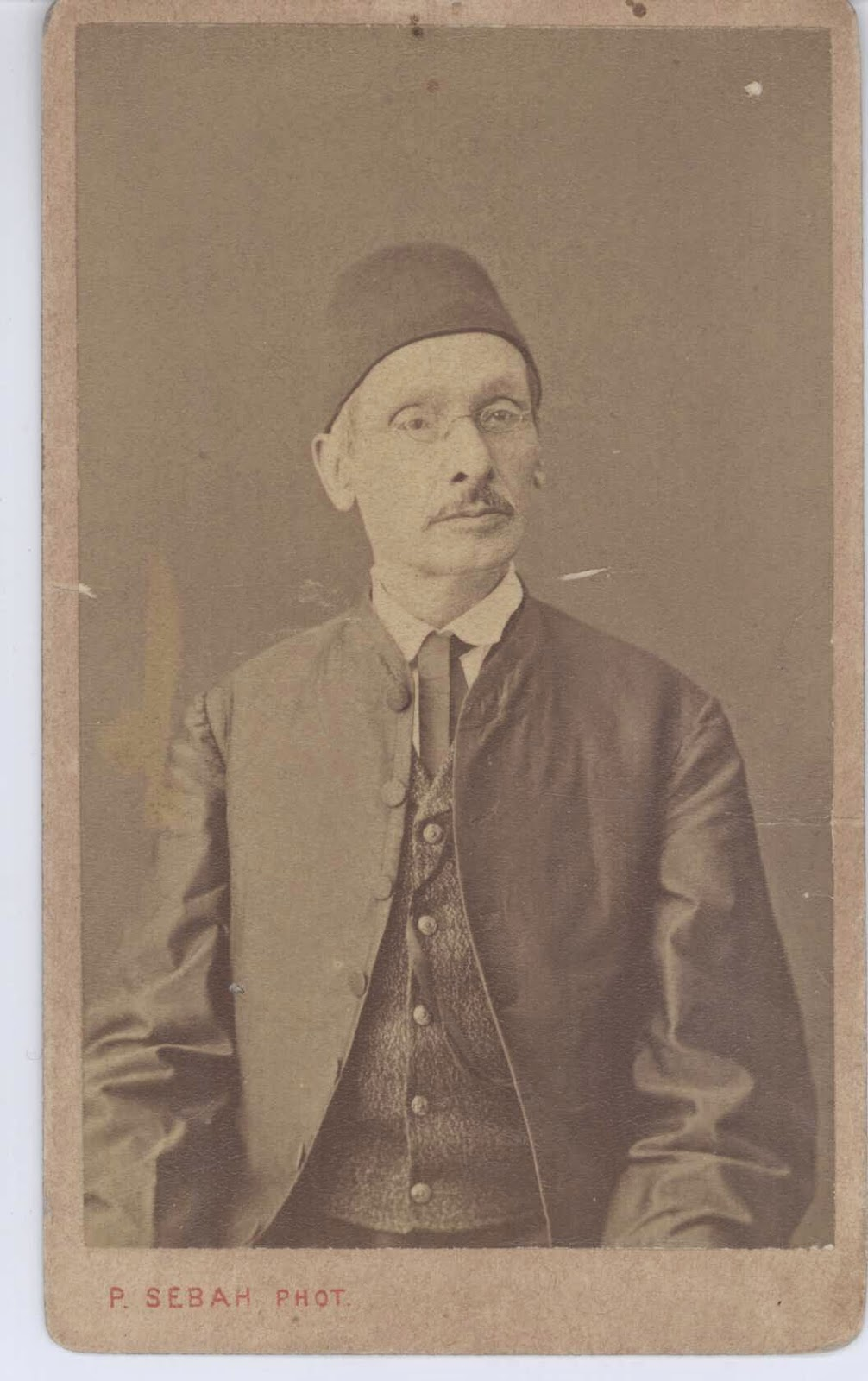 Hristodul_Kostovich_Sichan_Nikolov